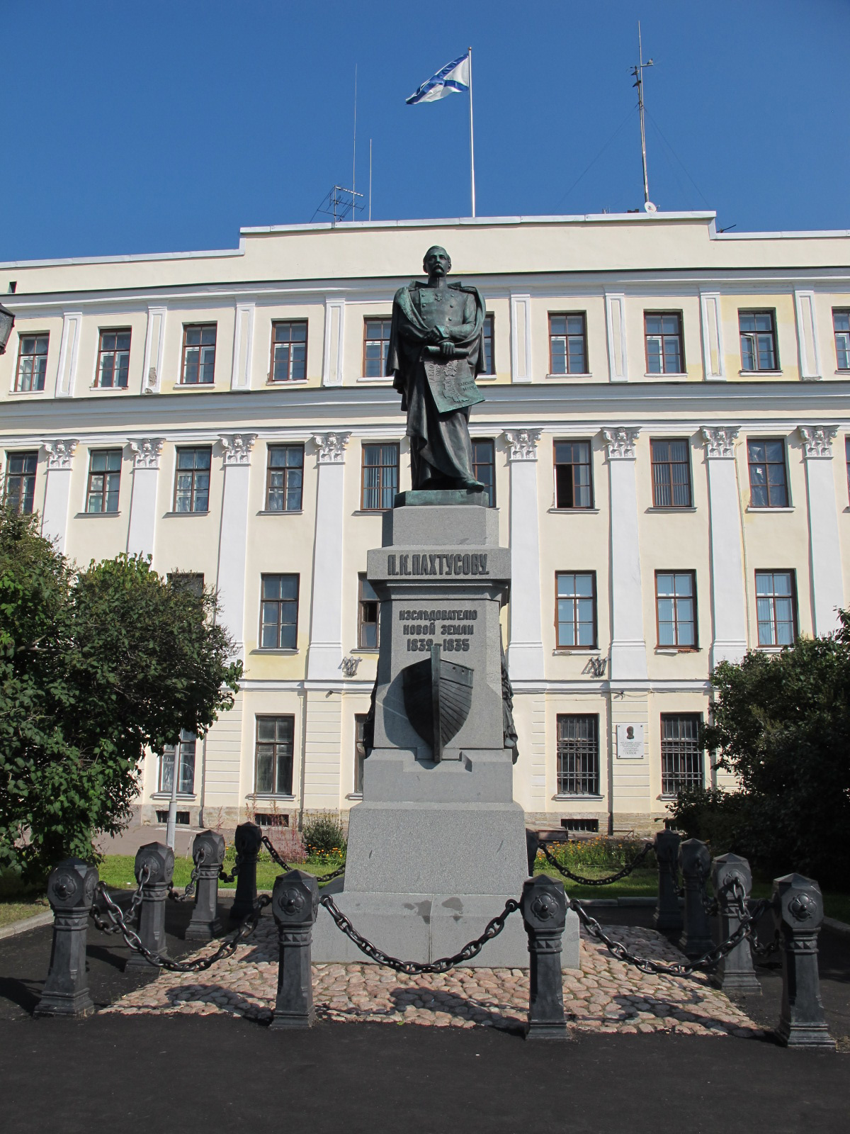 Pakhtusov Monument in Kronstadt